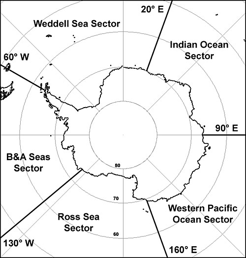 Sectors of Antarctica